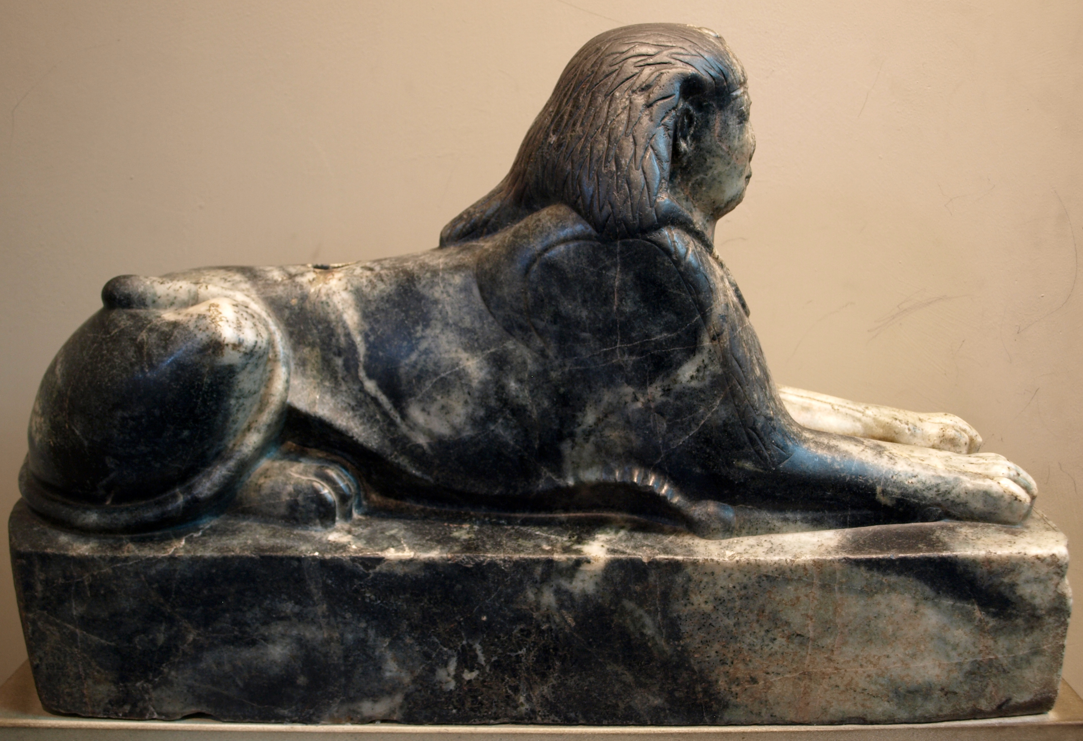 Sphinx of Ammenemes IV (Amenemhat IV), made of gneiss, circa 1795 BC. Its face was reworked during the Roman period. EA 58892.{For date of Amenemhat IV, 1815-1807 BC, see: List of pharaohs, or his article.)